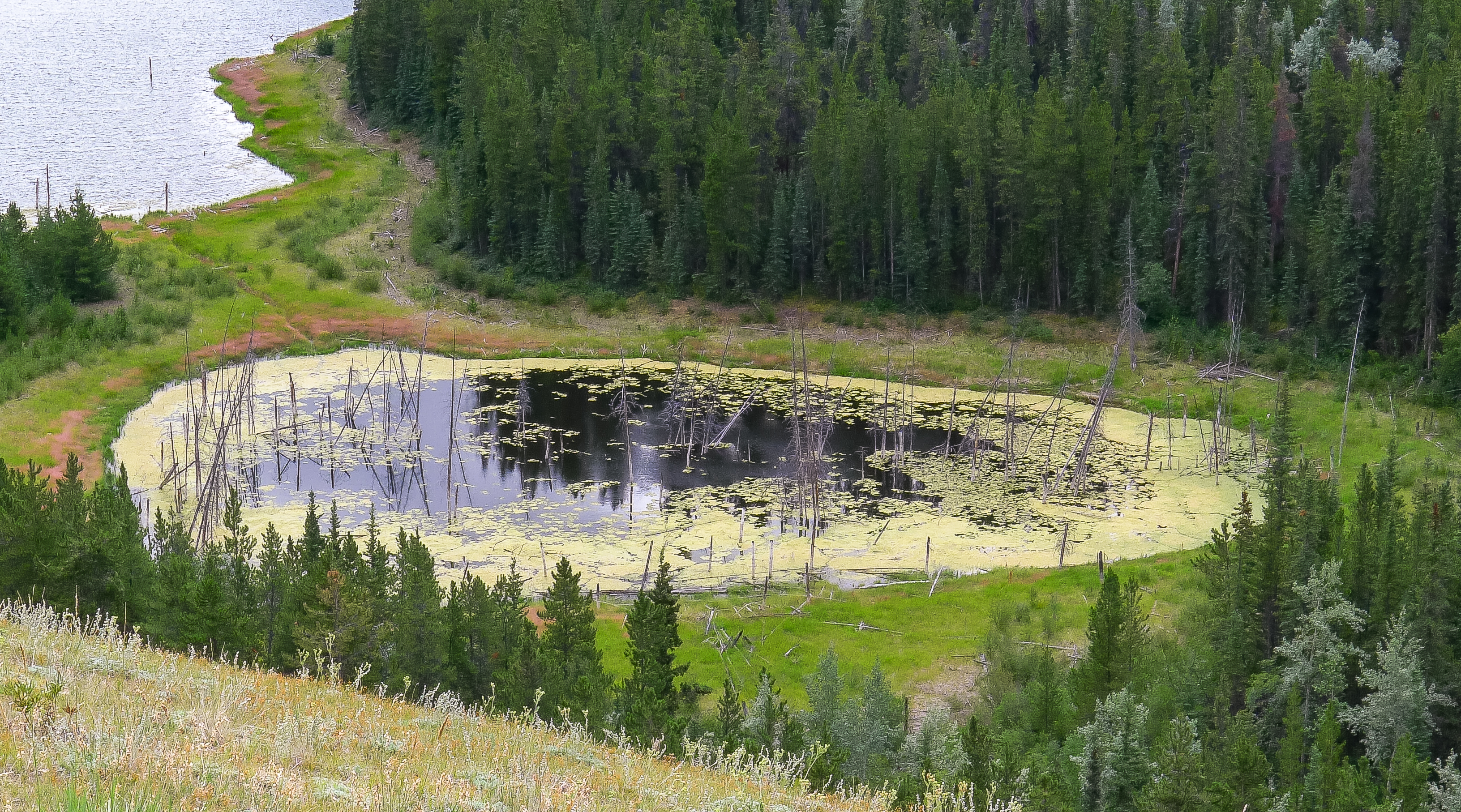 East of Schwatka Lake, south of Riverdale.